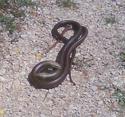 Two sheltopusiks (Ophisaurus apodus) fighting